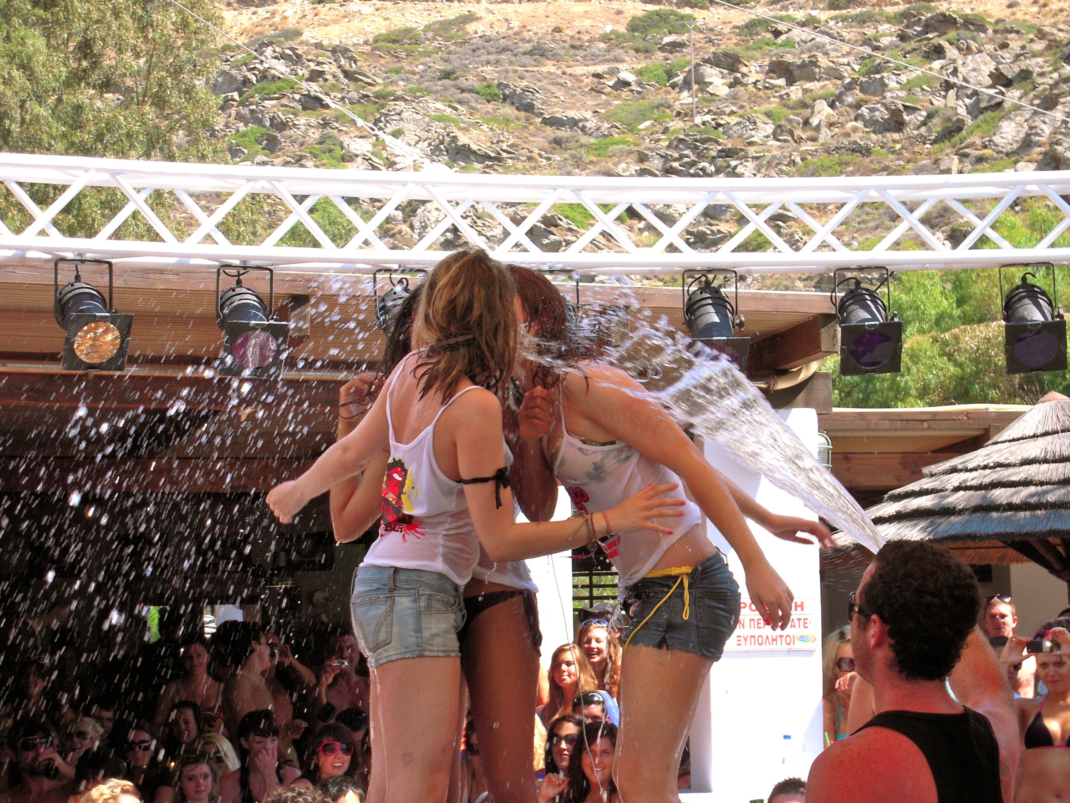 Wet T-Shirt Competition